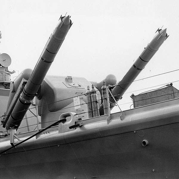 Finless SAM-N-6/RIM-8 Talos missiles on a Mark 12 Guided Missile Launching System (GMLS) aboard the U.S. Navy guided missile cruiser USS Columbus (CG-12), in 1962. This photograph was received by All Hands magazine on 27 November 1962.